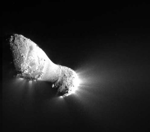 Image of Comet Hartley 2. This image was captured by NASA's EPOXI mission between Nov. 3 and 4, 2010, during the spacecraft's flyby of comet Hartley 2. It was captured using the spacecraft's Medium-Resolution Instrument.